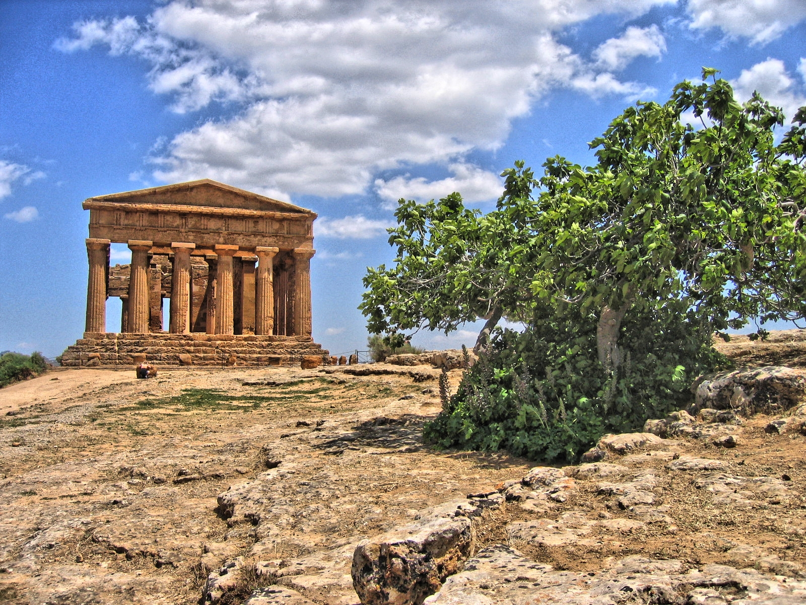 Agrigento (Sicilia) - Valle dei templi